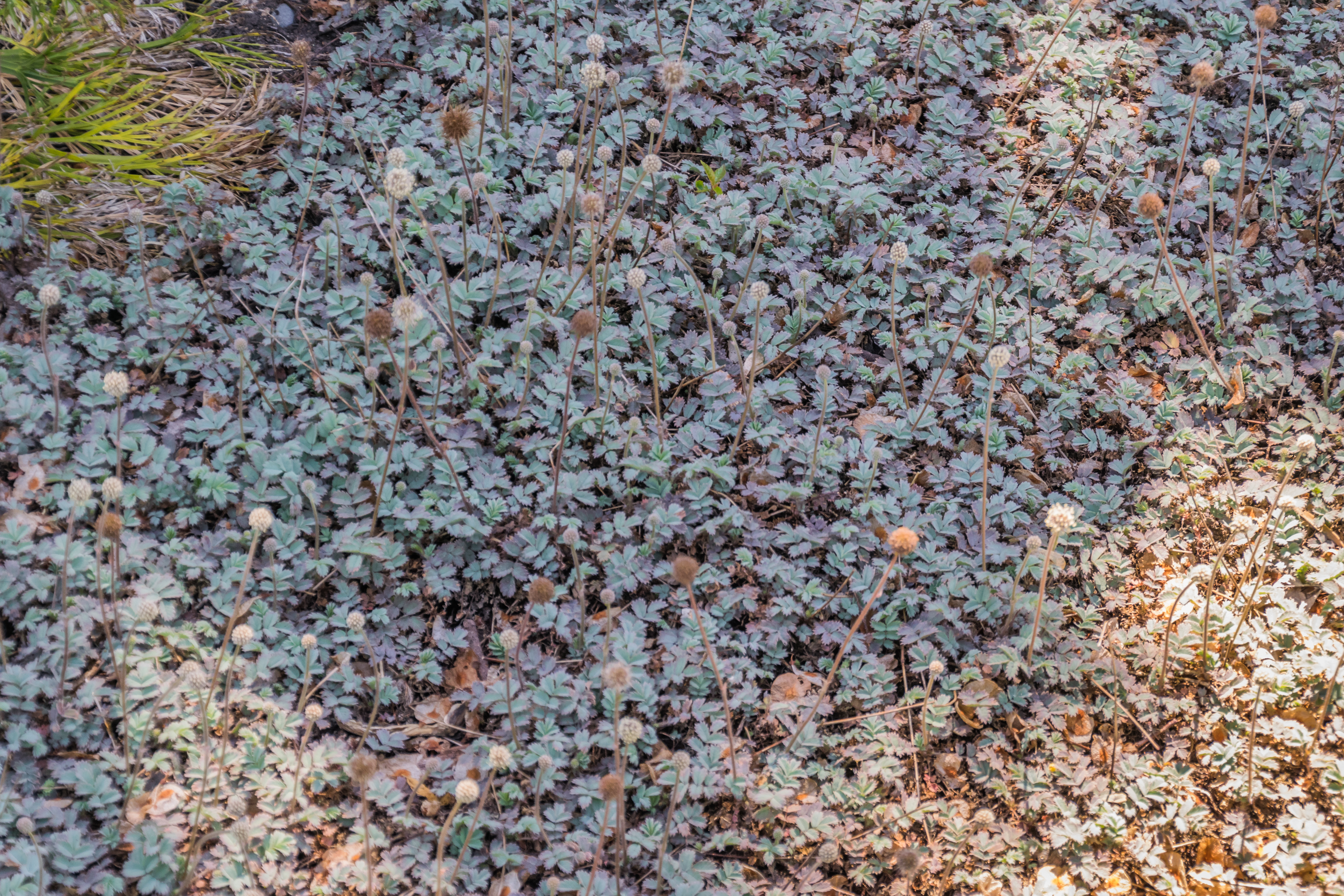 Acaena caesiiglauca in Christchurch Botanic Gardens in Christchurch, Canterbury Region, New Zealand